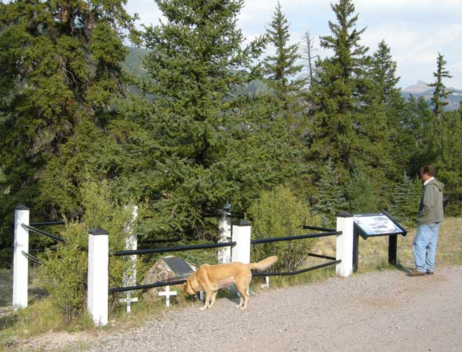 Memorial to the victims of Alferd Packer, the American cannibal, at the site of the crime